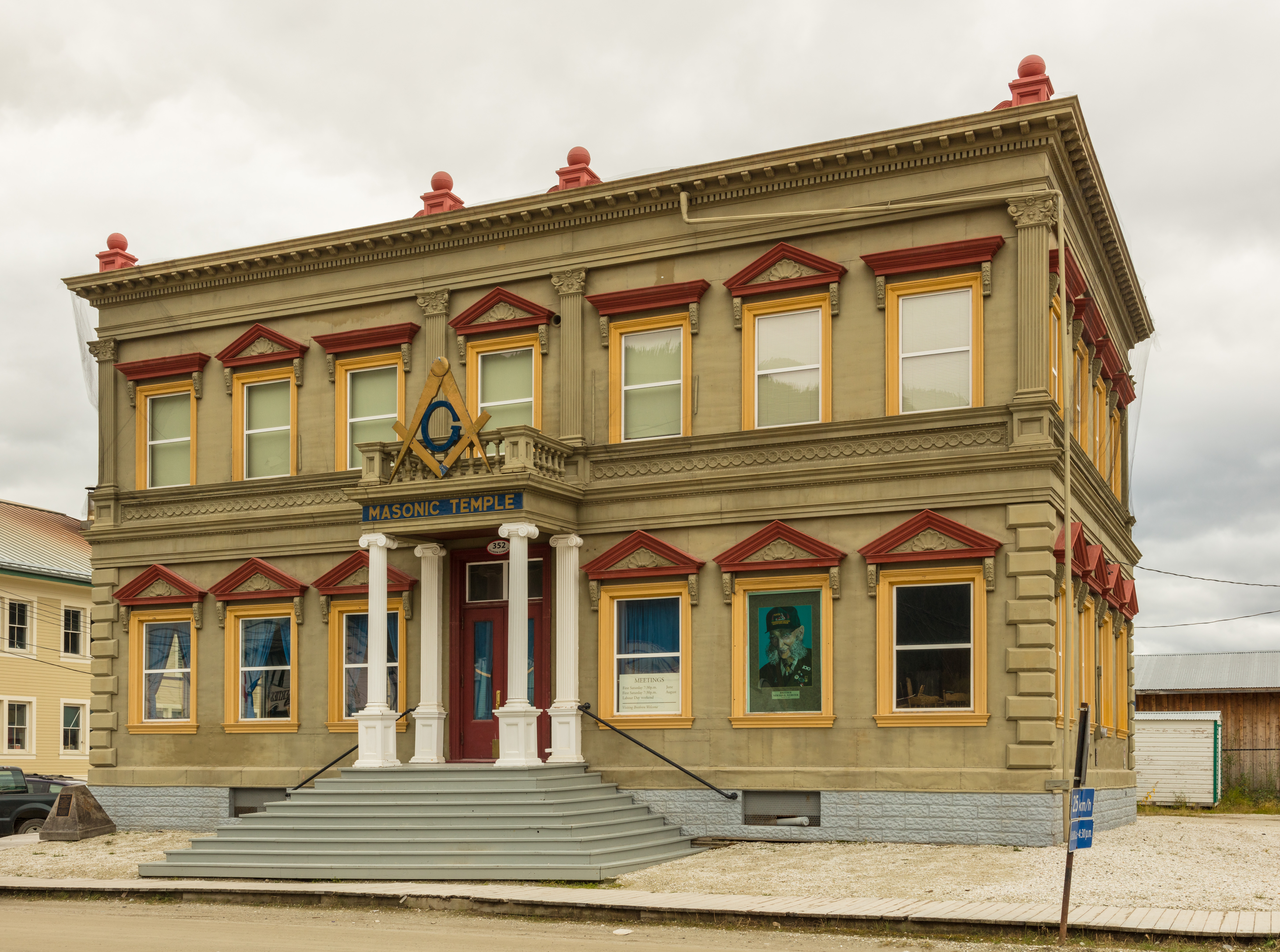 Masonic temple, Dawson City, Yukon, Canada